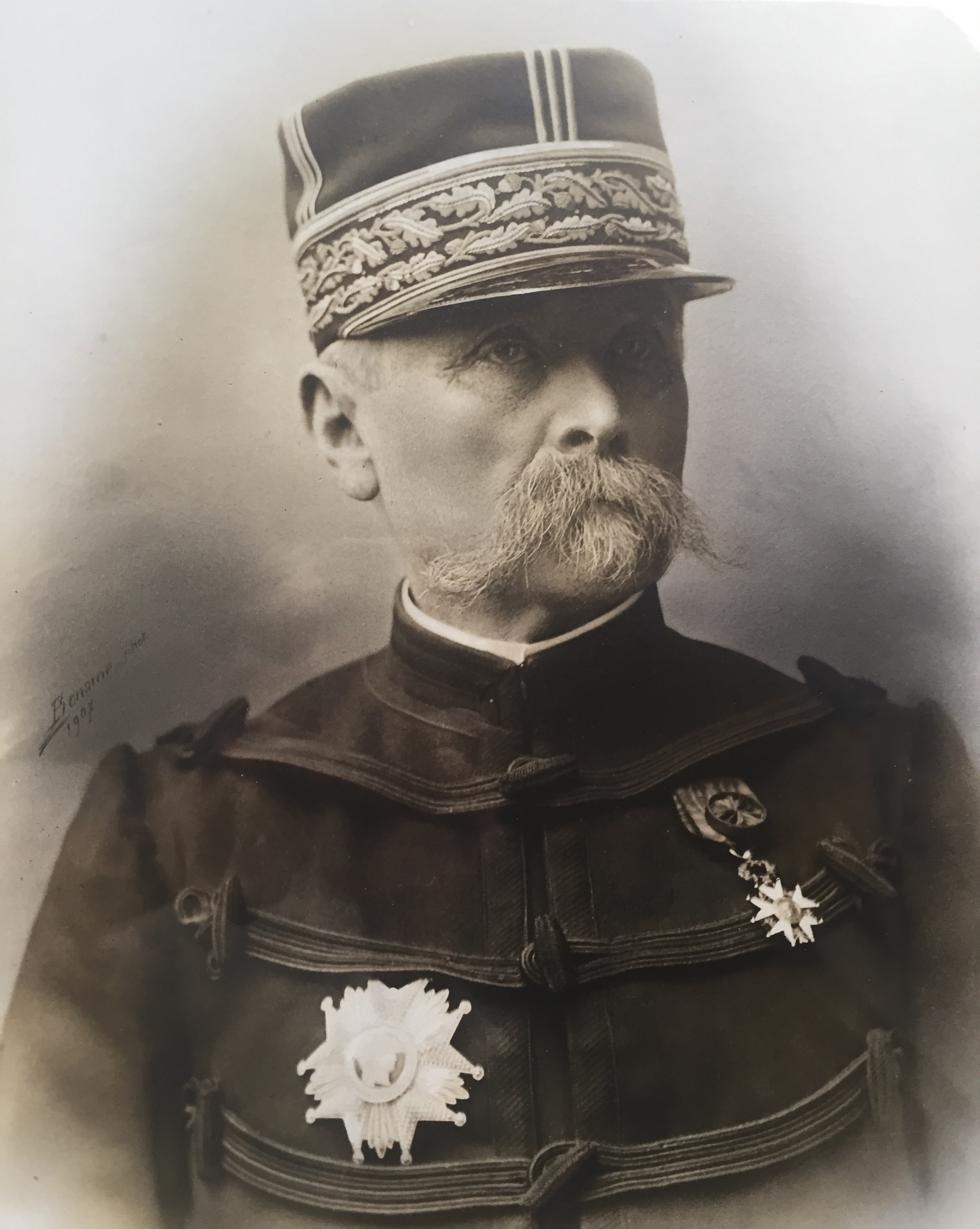 Photo of General Henri - Alphonse Deckherr